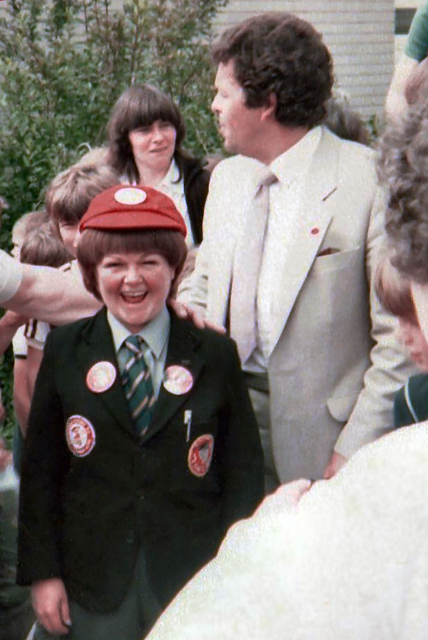 Wee Jimmy Krankie (left) and Jimmy Krankie at Stanah County Primary School in Thornton, Lancashire, in the 1980s.